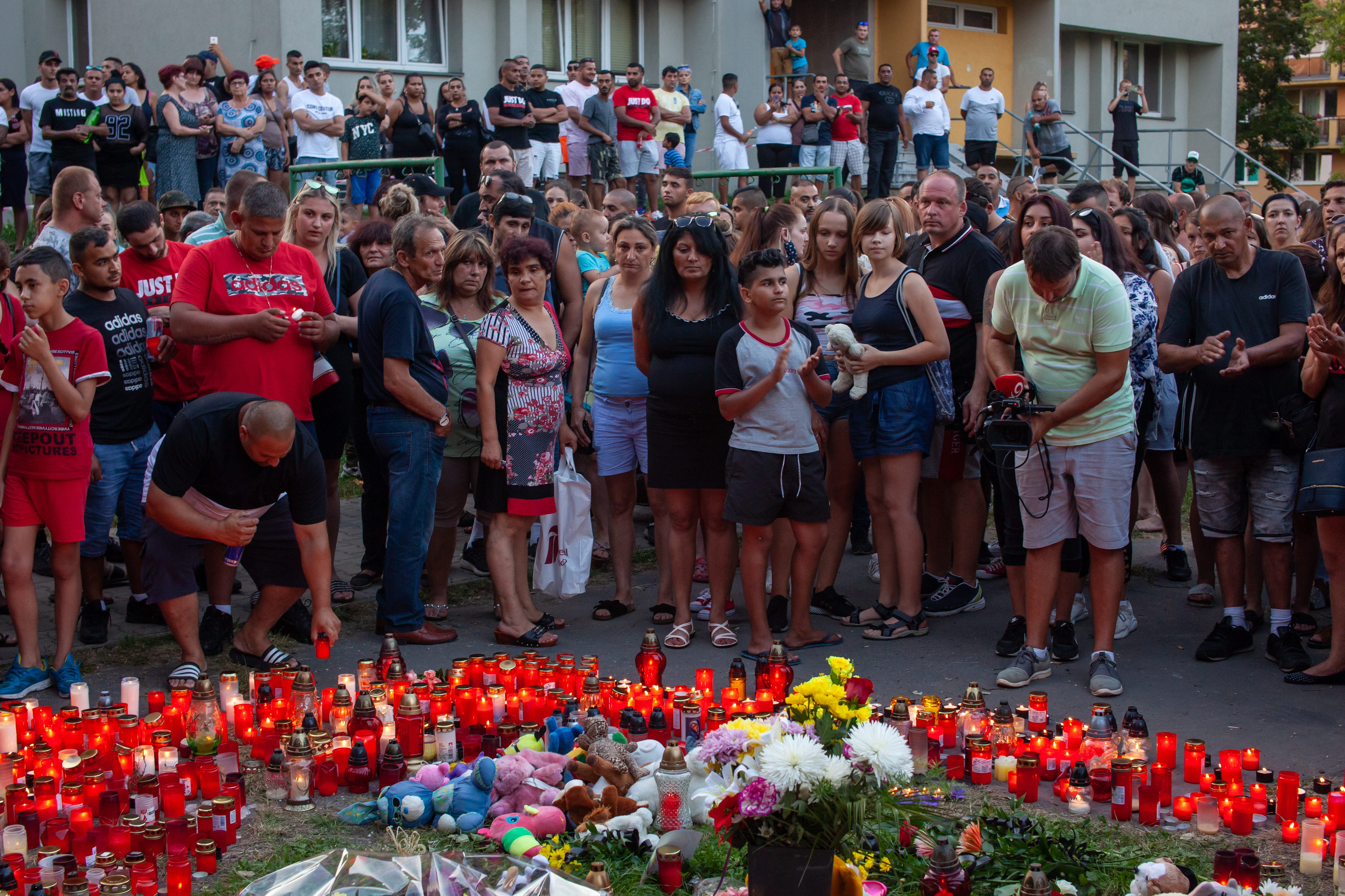 2020 Bohumín arson attack - aftermath, piety gathering, Bohumín, Karviná District, Moravian-Silesian Region, Czechia